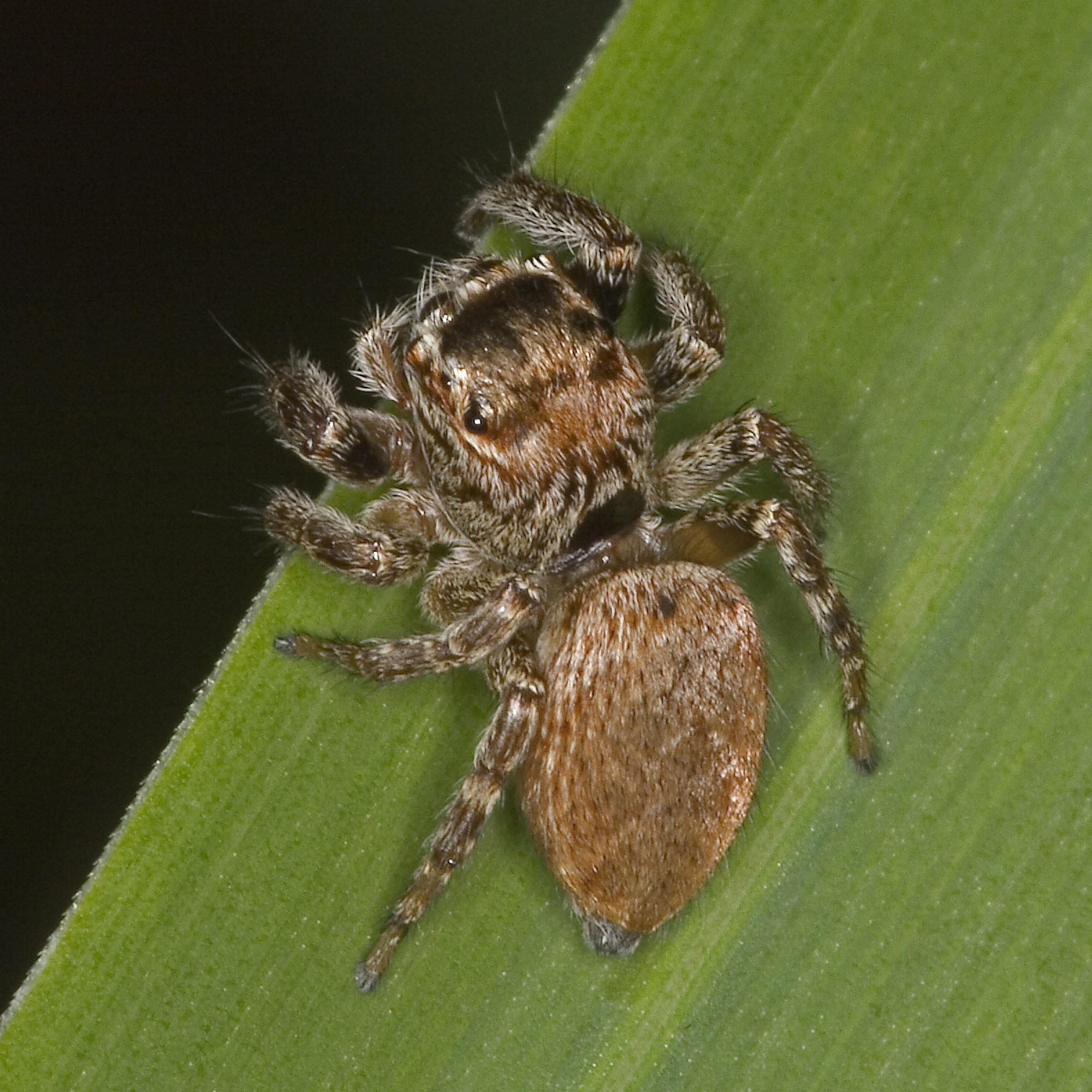 This is probably a female of Evarcha falcata (Clerck, 1758) (95%). There is a small unsafeness that this species is E. arcuata (5%). This specimen has a size of 5 millimeters. Thanks to Jürgen Peters for determination! Location: Laußnitzer Heide between Ottendorf-Okrilla and Königsbrück (Saxony, Germany) 5/180L f22 Film / Speed: ISO 200 Comment: Canon Ring Flash MR-14EX